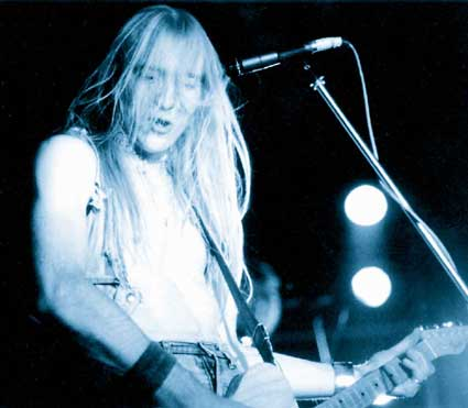 Vardis front man, Steve Zodiac (Stephen John Hepworth) (Heppy)